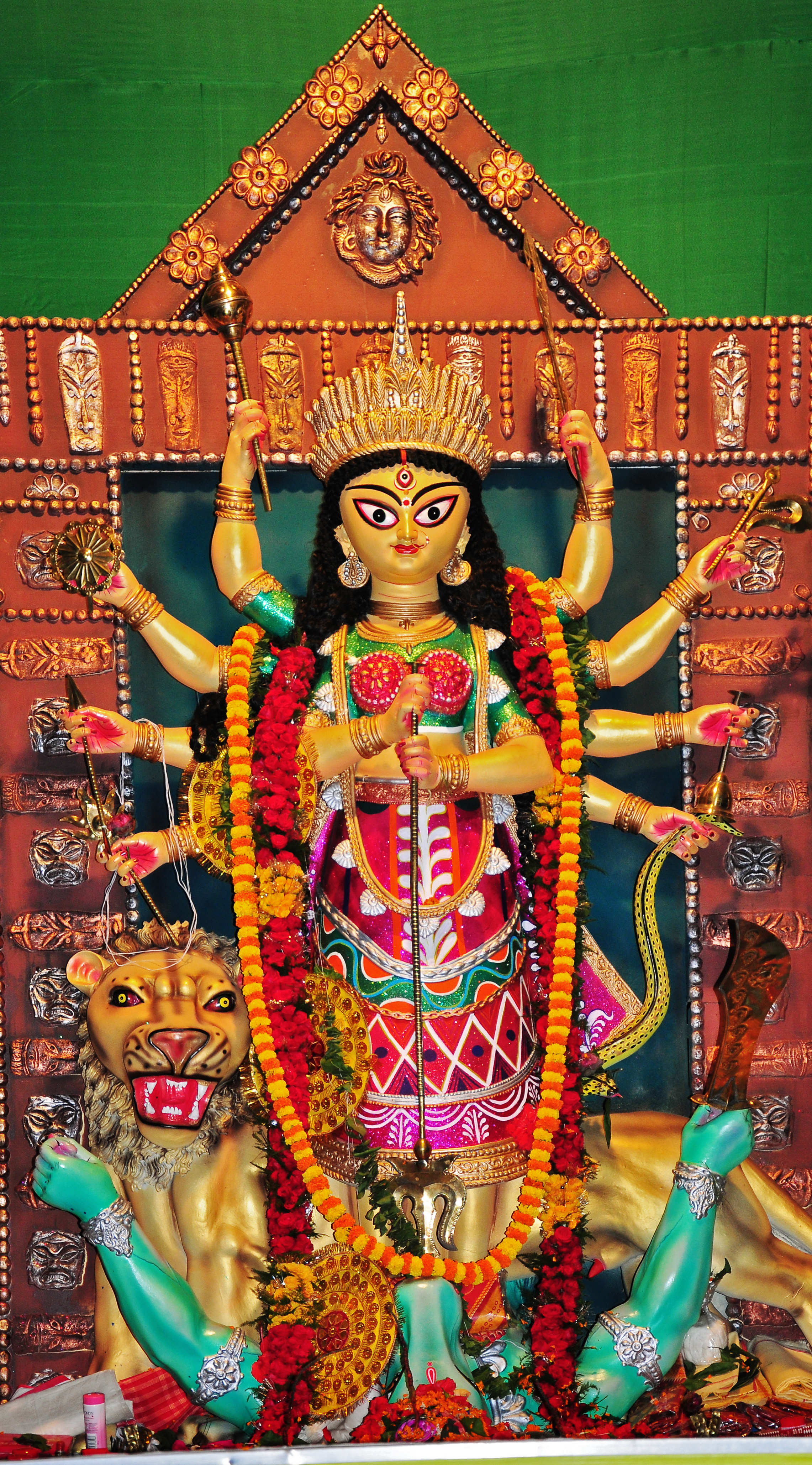 Sculpture of goddess Durga at Durga temple, Burdwan.